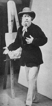 Oscar Rejlander (1813–1875), Victorian art photographer